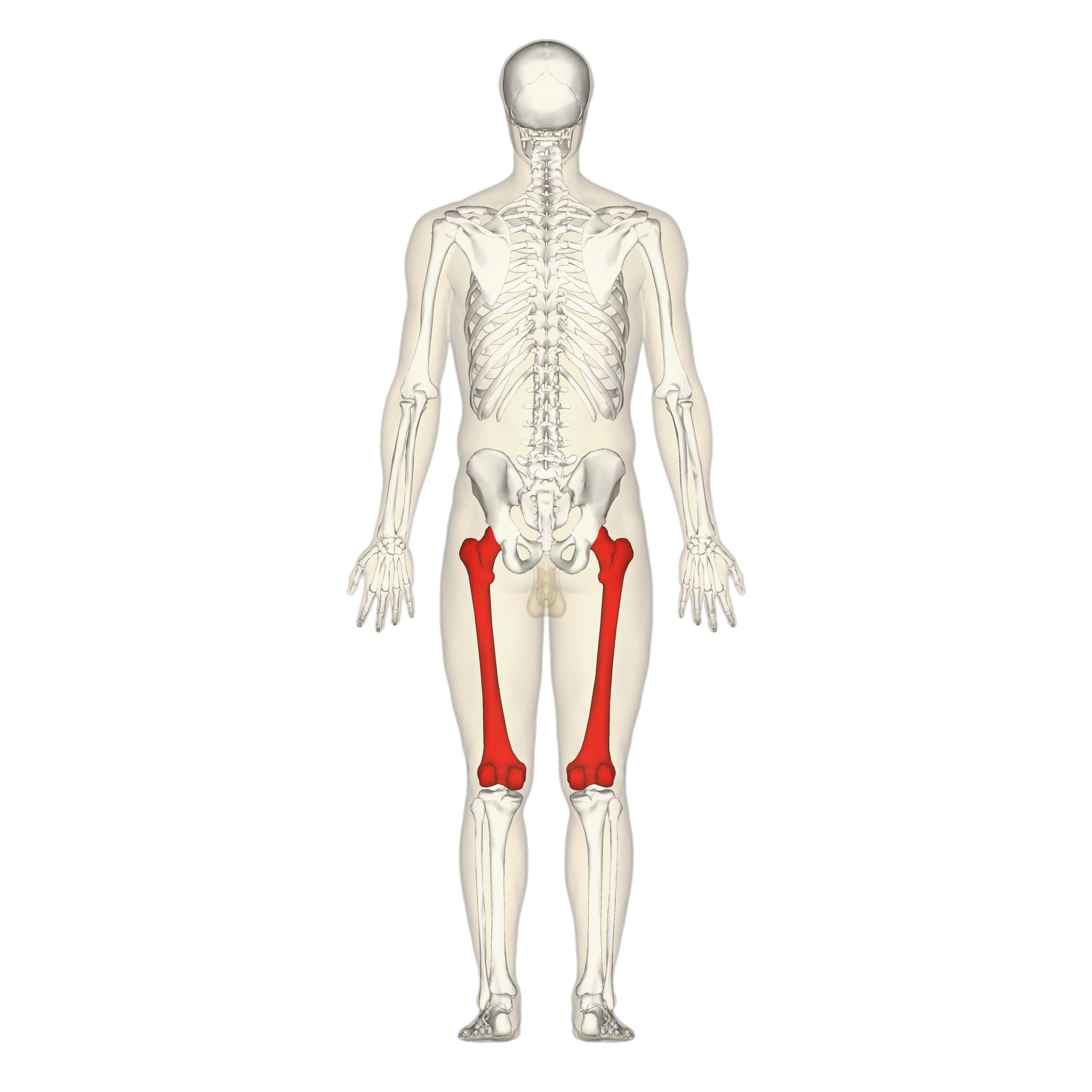 femur. Shown in red.